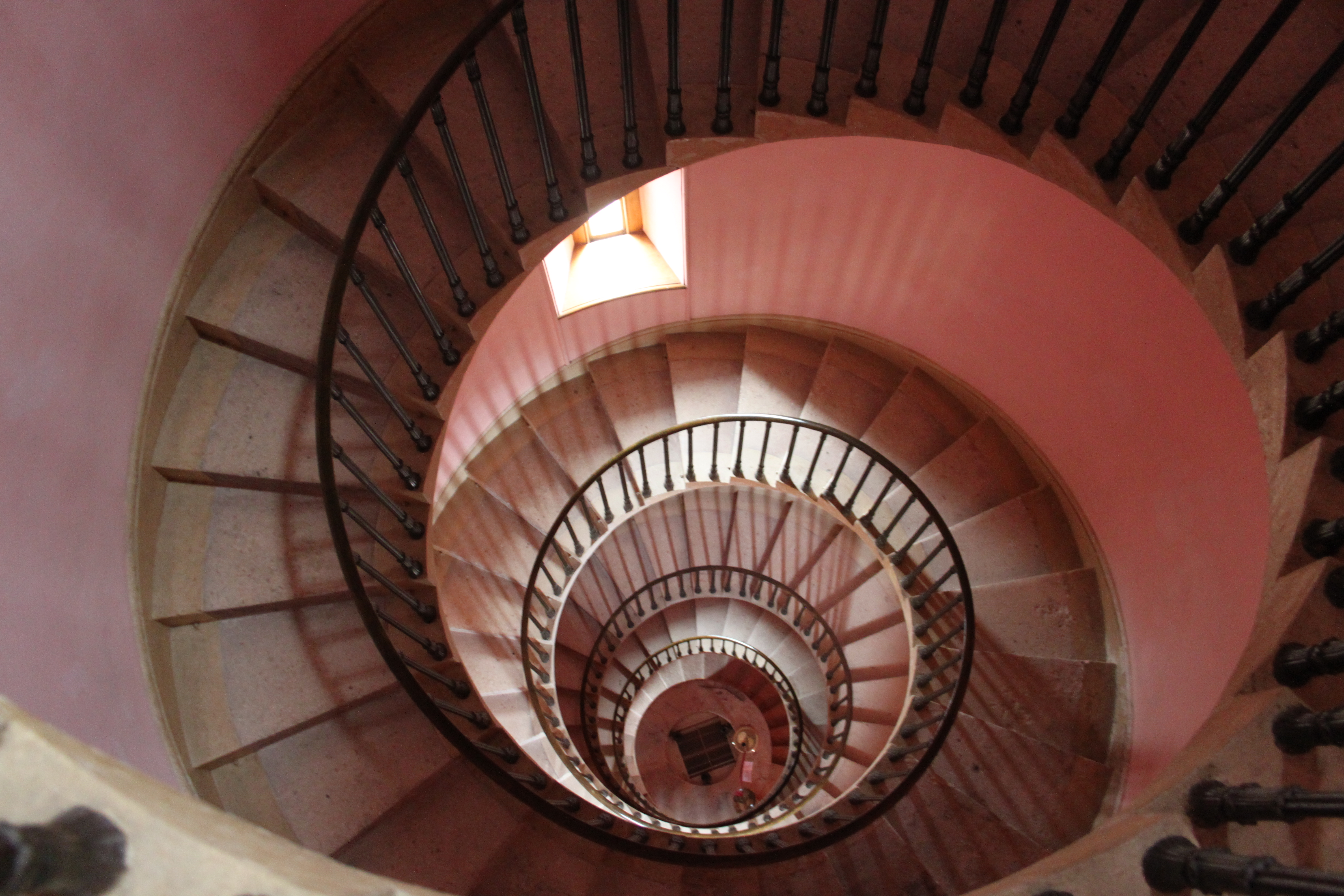 Beckford's Tower Lansdown spiral staircase